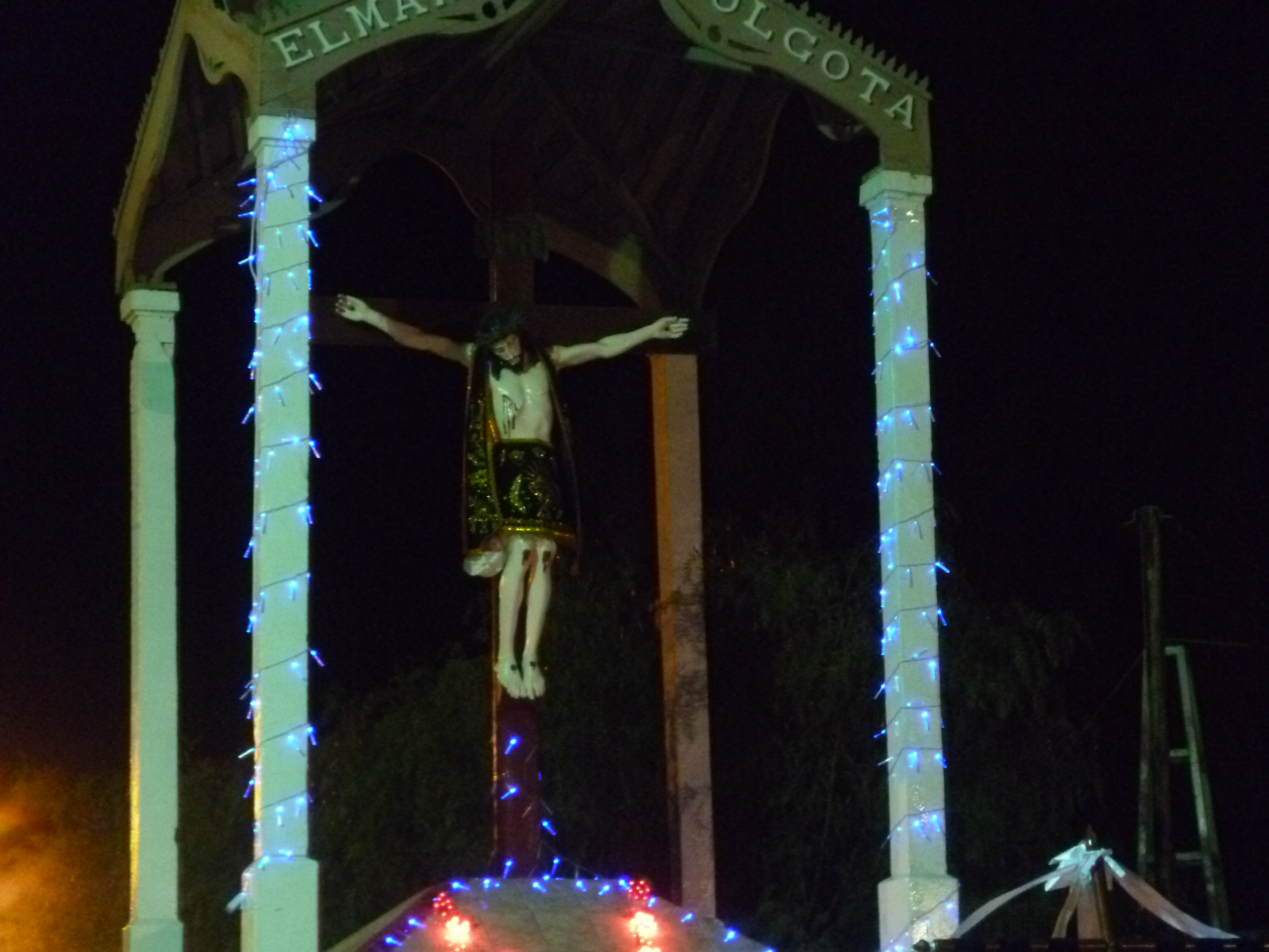 Santuario de las Peñas (Livilcar-Arica)